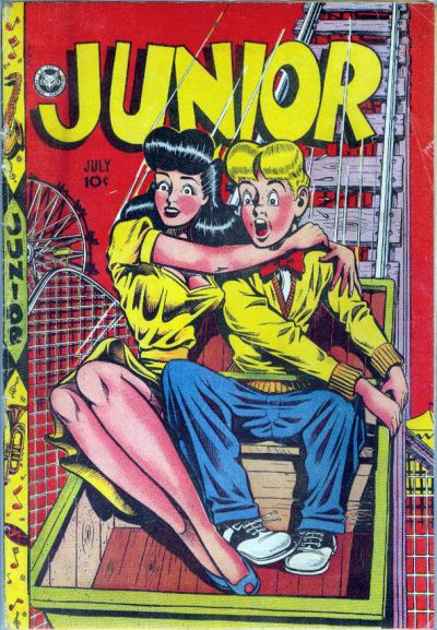 Cover of "Junior" comic book 1948; Cover of Junior 16 (July 1948 Fox Feature Syndicate). Art by Al Feldstein.